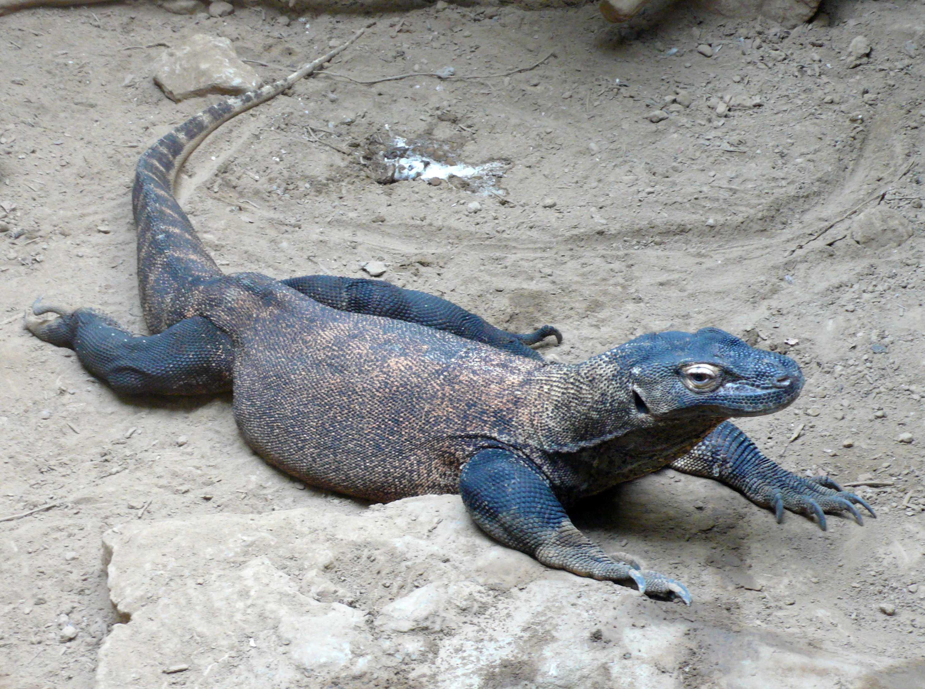 Komodo dragon (Varanus komodoensis)